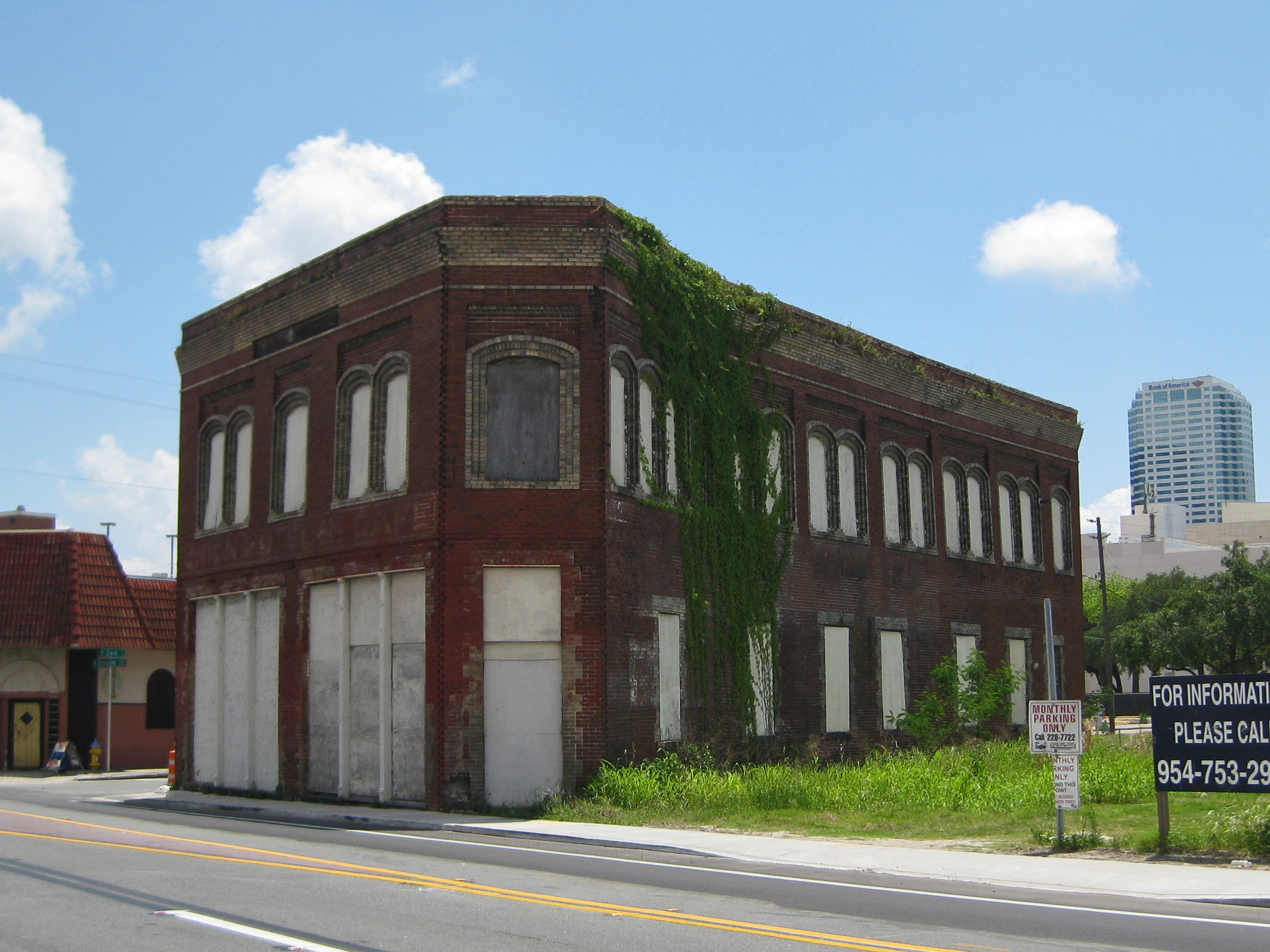 The Old Union Depot Hotel building, formerly the Union Hotel and Cafe, in Tampa, Florida. Four sides of the six-sided building are visible here, as seen from Nebraska Avenue at the CSX railroad crossing. The building was razed on May 23, 2010.